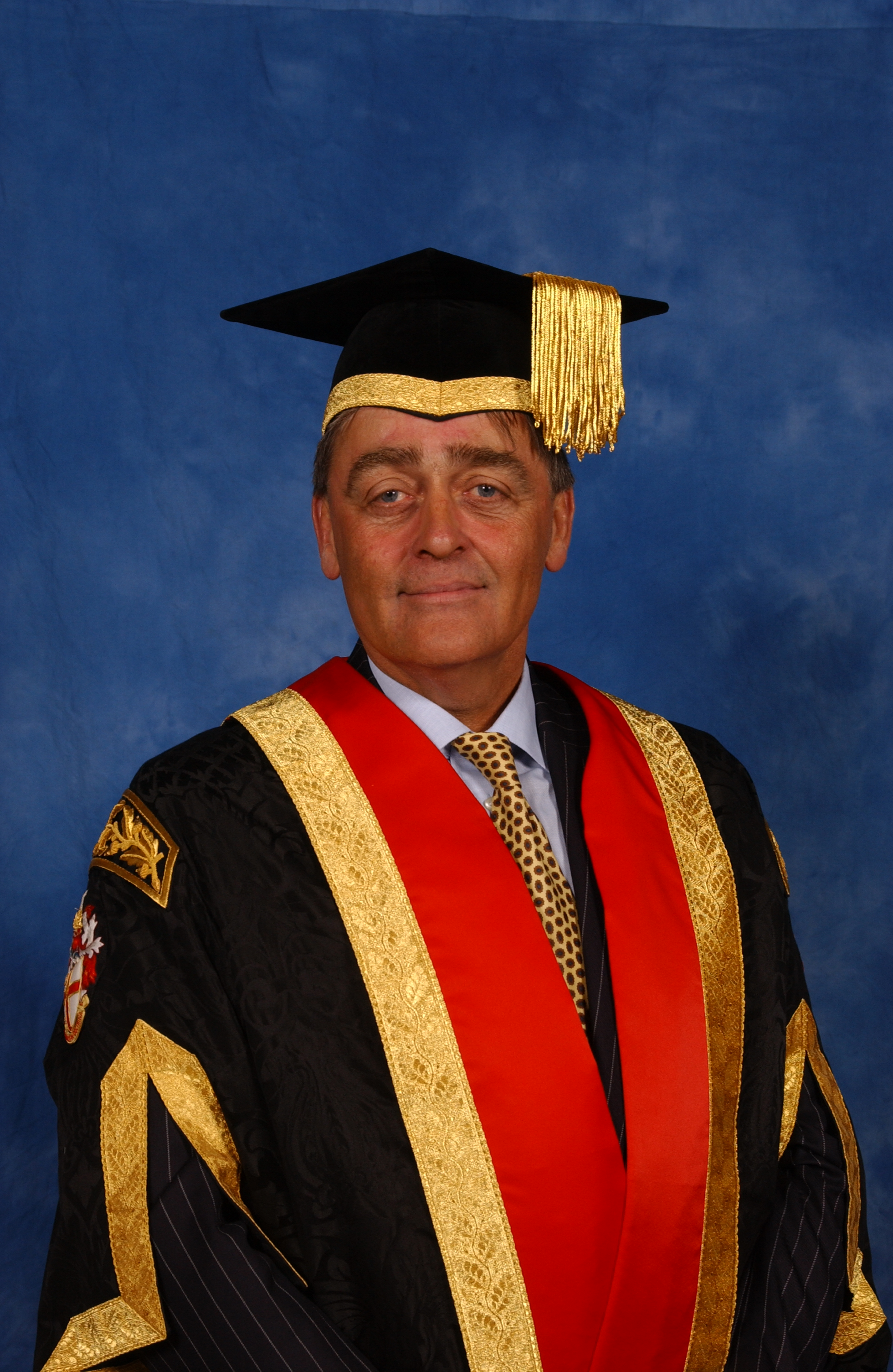 Gerald Grosvenor, 6th Duke of Westminster, Foundation